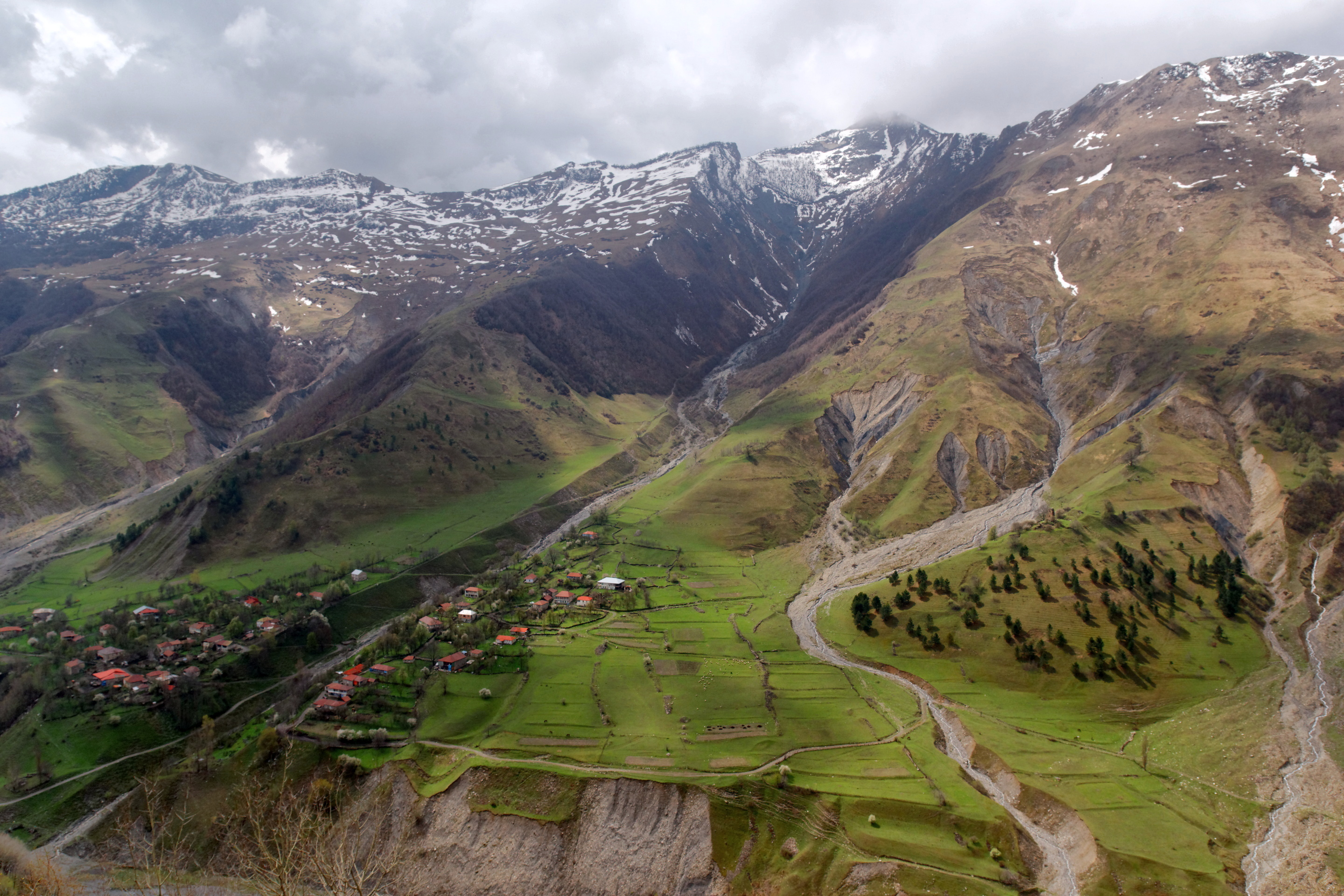 Georgia. Georgian Military Road. Zemo Mleta